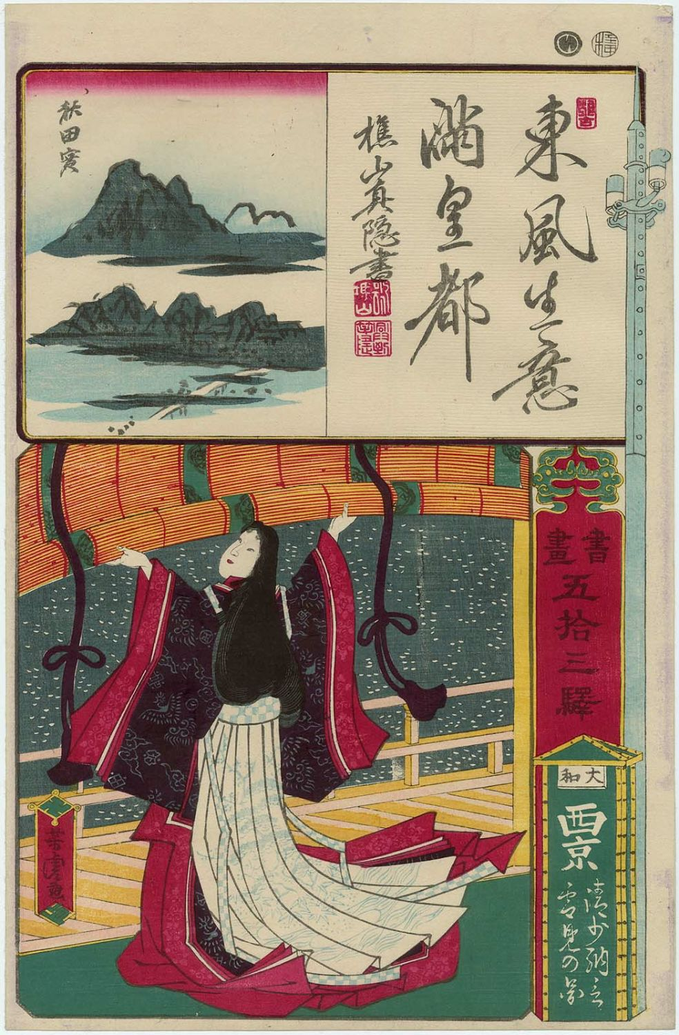 Sei Shōnagon, 11th century Japanese poet and writter